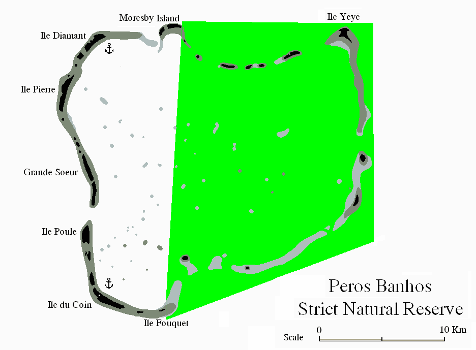 Map of Peros Banhos Atoll, the nature reserve area is highlighted green